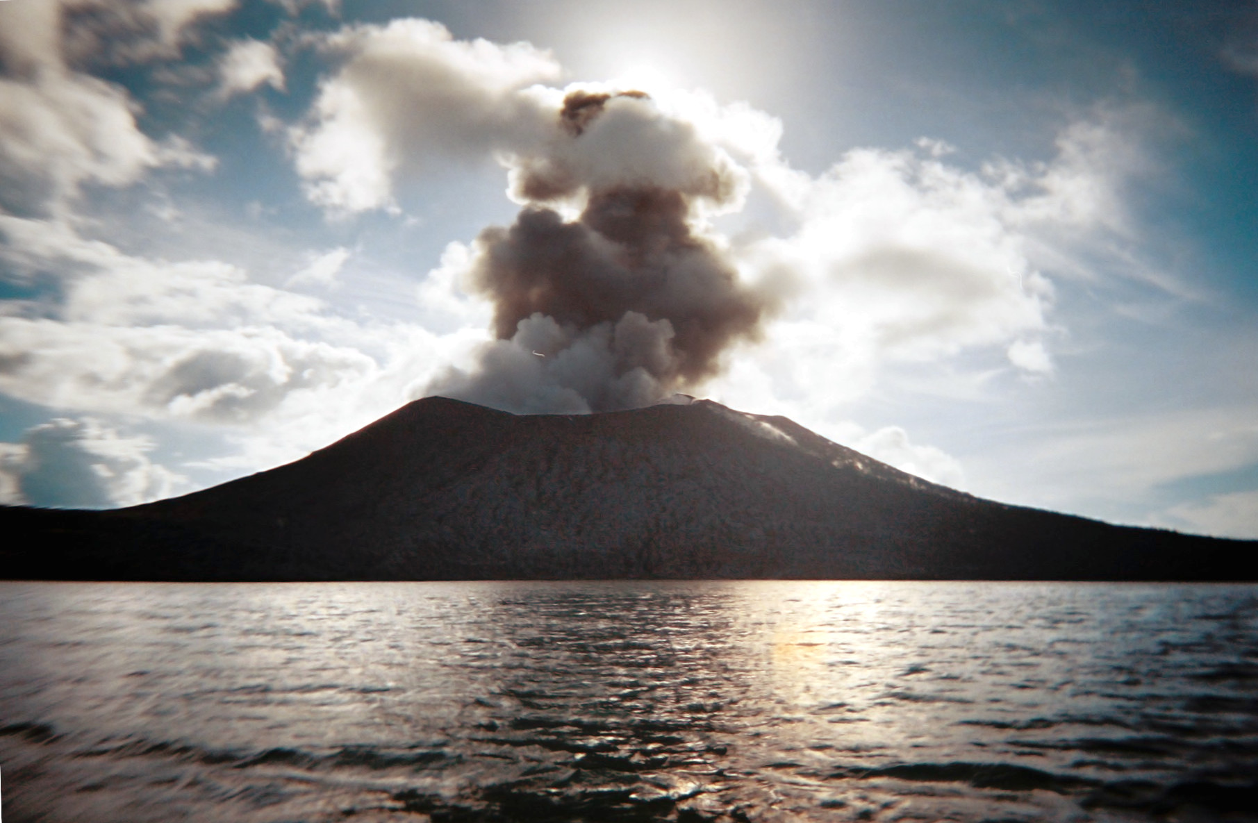 Mount Tarvurvur, Papua New Guinea, taken with a Ringiris M313 26mm wide angle